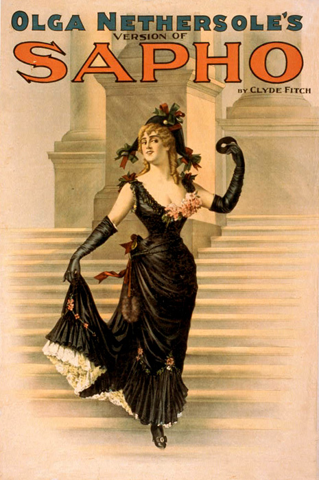 Theatrical poster, Olga Nethersole's version of Sapho by Clyde Fitch.